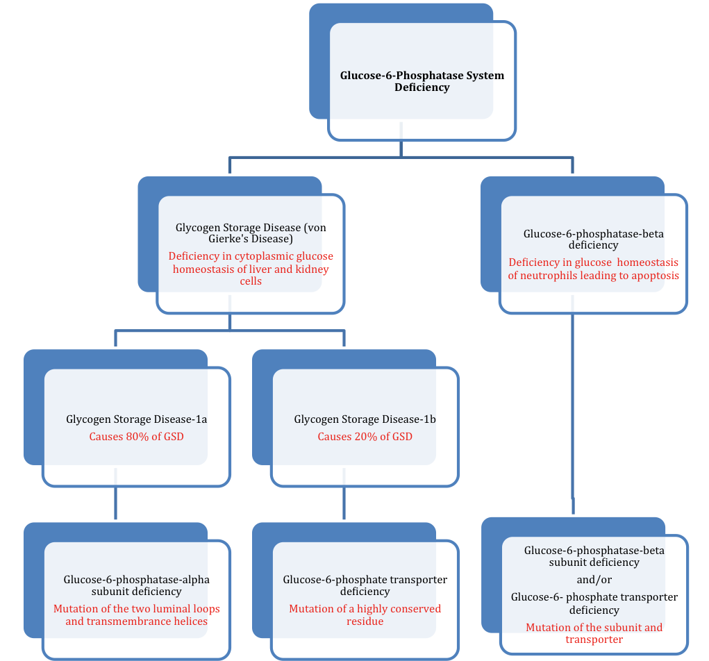 This is a hierarchical chart showing the various components that constitute Glucose-6-phosphatase system deficiency. Specifically it shows the effects of Glucose-6-phosphatase subunit-alpha, Glucose-6-transporters, and Glucose-6-phosphatase subunit-beta.